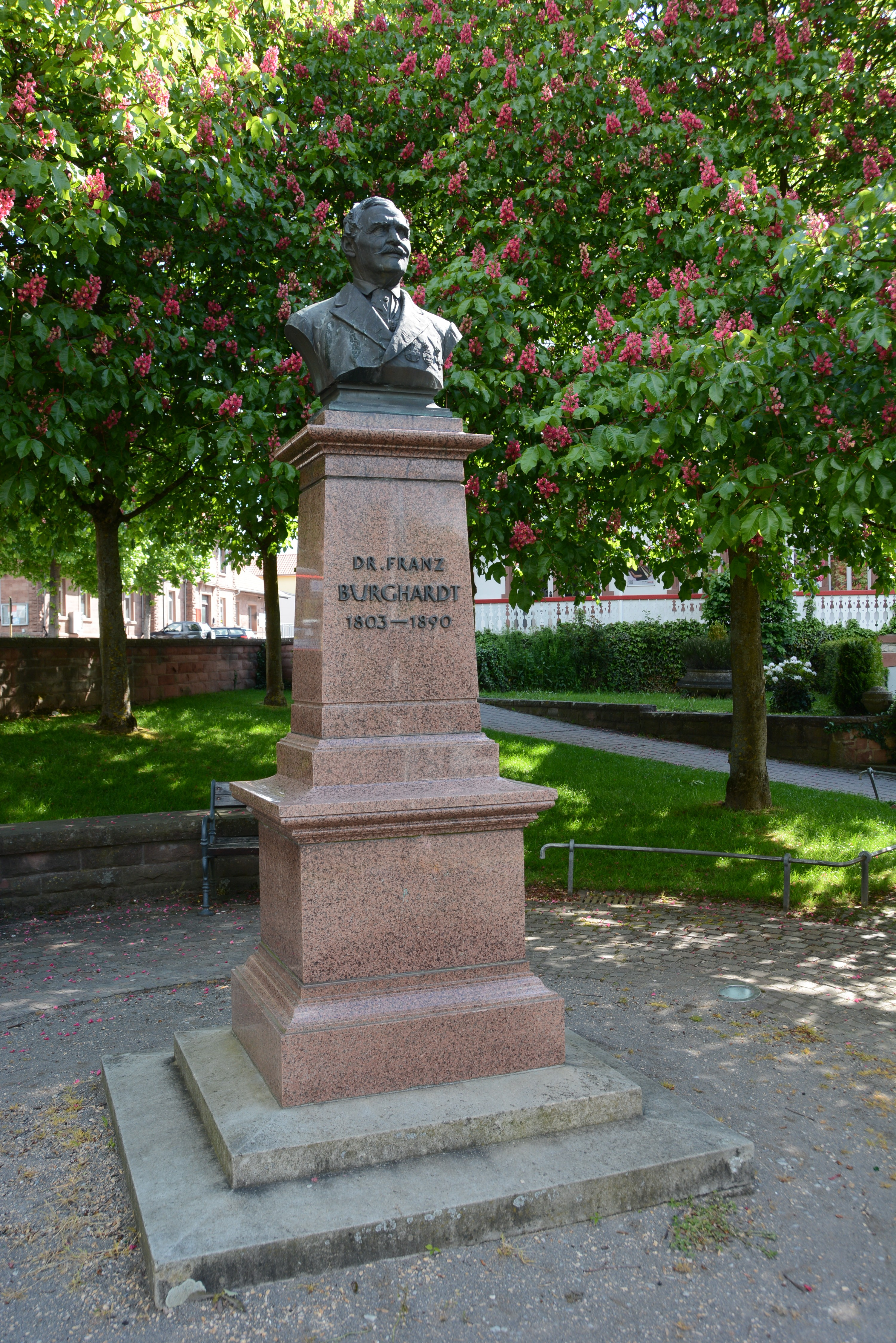 Dr. Franz Burghardt memorial, Buchen (Odenwald), Germany